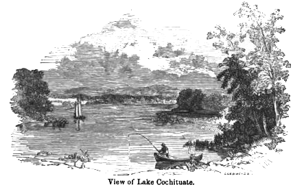 A Chart and Description of the Boston and Worcester and Western Railroads: In which is Noted the Towns, Villages, Station, Bridges, Viaducts, Tunnels, Cuttings, Embankments, Gradients, &c., the Scenery and Its Natural History, and Other Objects Passed by this Line of Railway. With Numerous ... By William Guild Published by Bradbury & Guild, 1847 p. 15